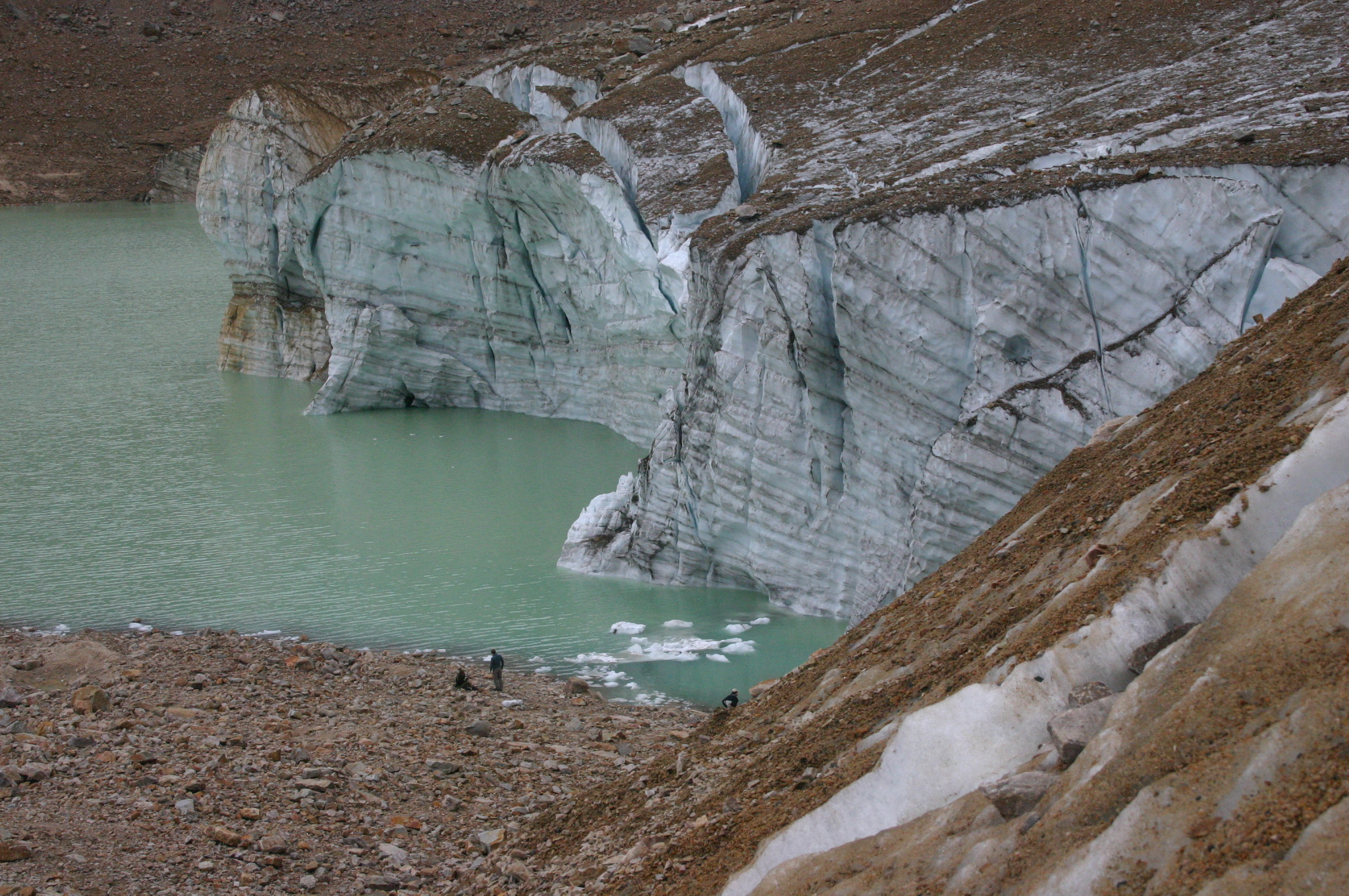 The melting Cavell Glacier dipped in its own meltwater. The glacier as well as the photographer's location is perennial ice covered by a thin layer of crumbling sand and gravel deposited in summer, hence each streak in the glacial ice denotes one year. Two large crevasses are clearly visible in the glacial ice. Some people in the distance gives you a sense of scale.